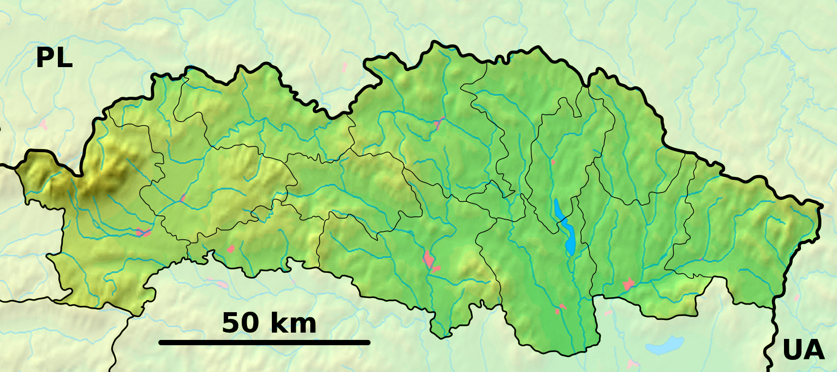 Background map of the Prešov Region, Slovakia, ready for the Geobox template, calibrated at Template:Geobox locator Prešov Region Outline map of the prešov Region, Slovakia, ready for the Geobox template, calibrated at Template:Geobox locator Prešov Region